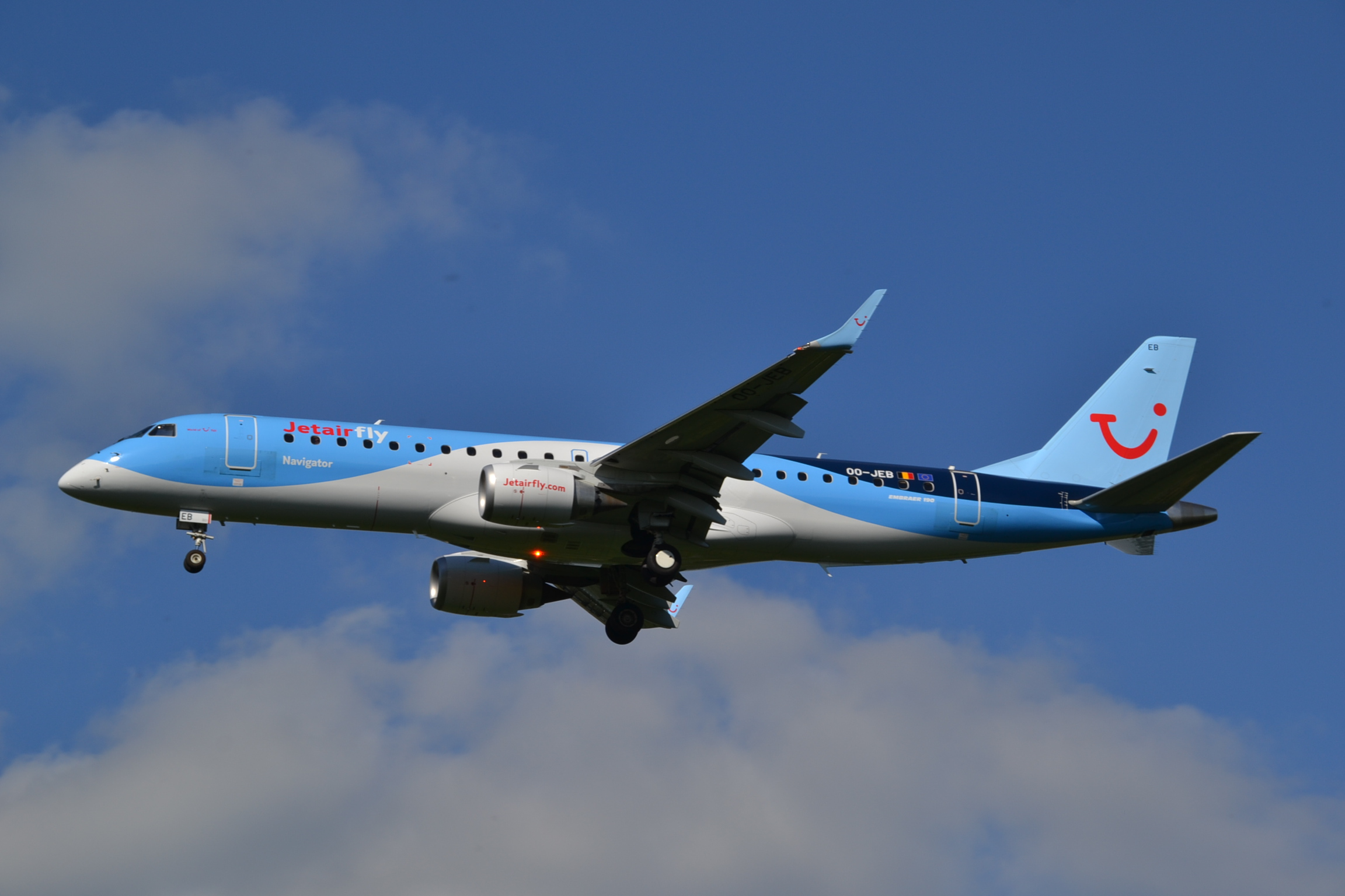 Embraer Emb-195 of Jetairfly on final approach to rwy.33 at Birmingham-BHX, 12/06/14.